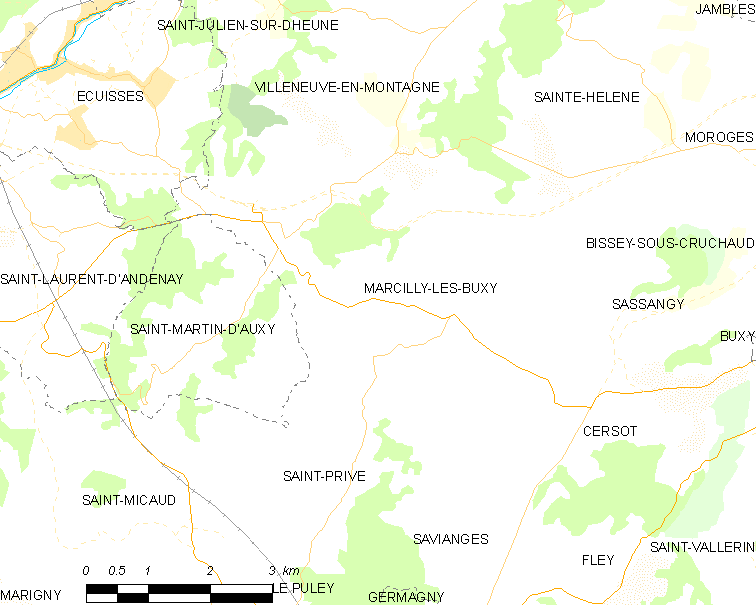 Map of French municipality